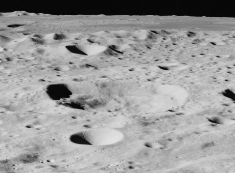 Oblique view of Leonov, on the far side of the moon, facing north. The dark flat plain of Mare Moscoviense is on the horizon. Sun angle 20 deg, camera altitude 116 km.